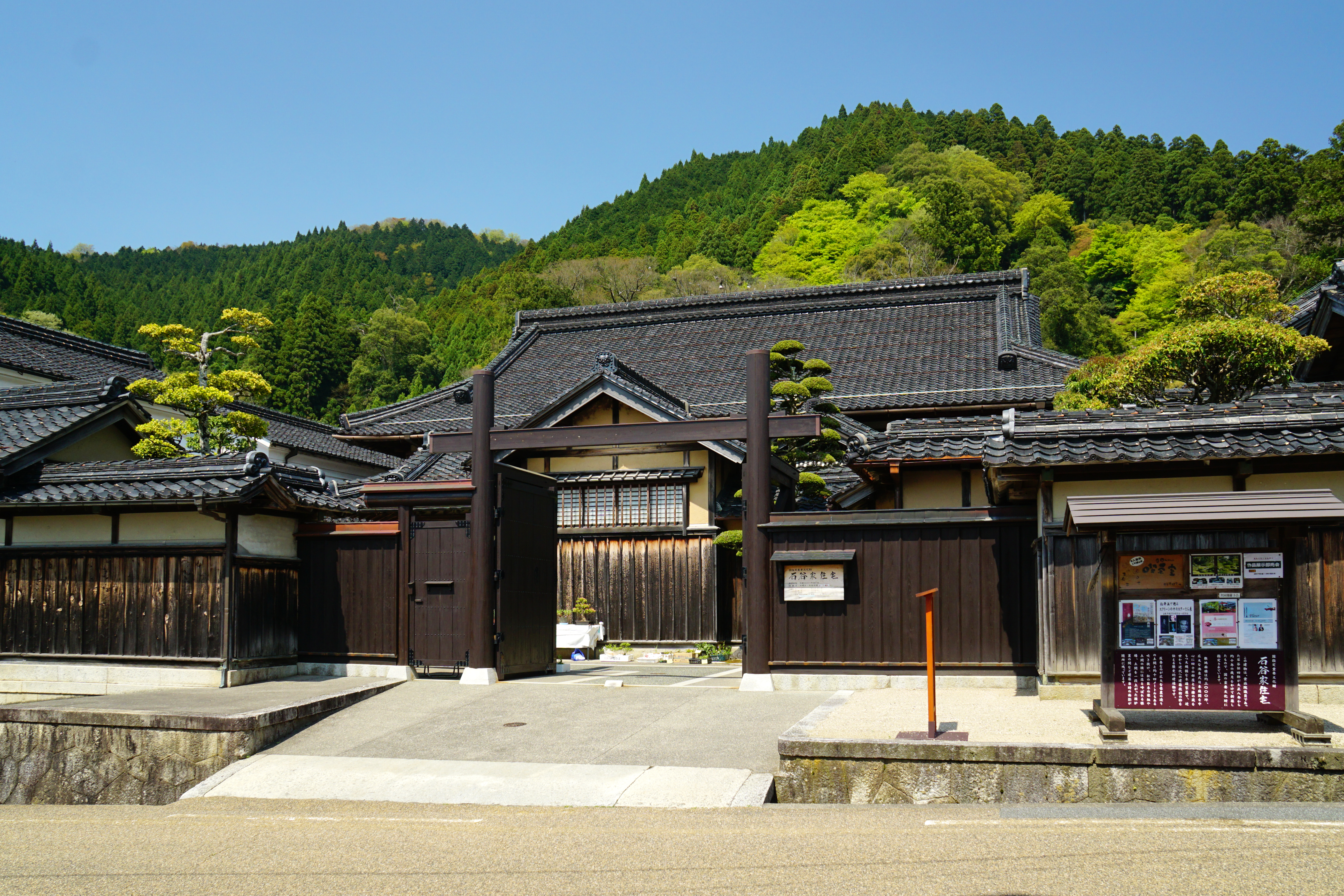 Ishitani Residence in Chizu, Tottori prefecture, Japan